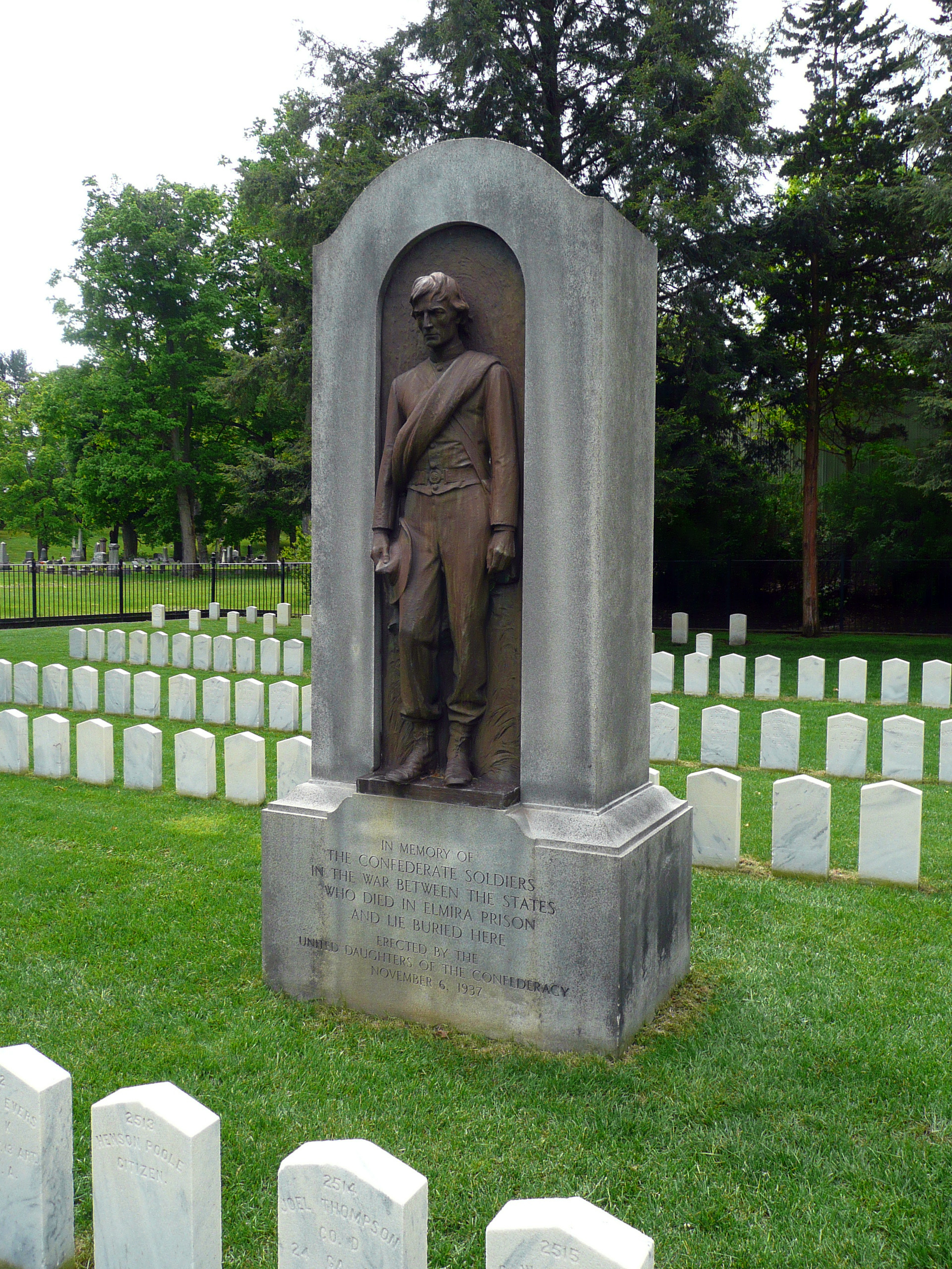 Monument to Confederate dead at Woodlawn Cemetery, Elmira, NY. Photo by Hal Jespersen, May 2010.